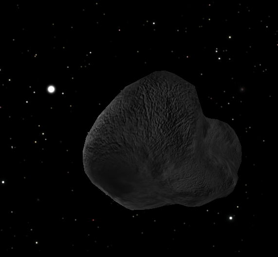 Artistic representation of Carpo, with Jupiter in the background.